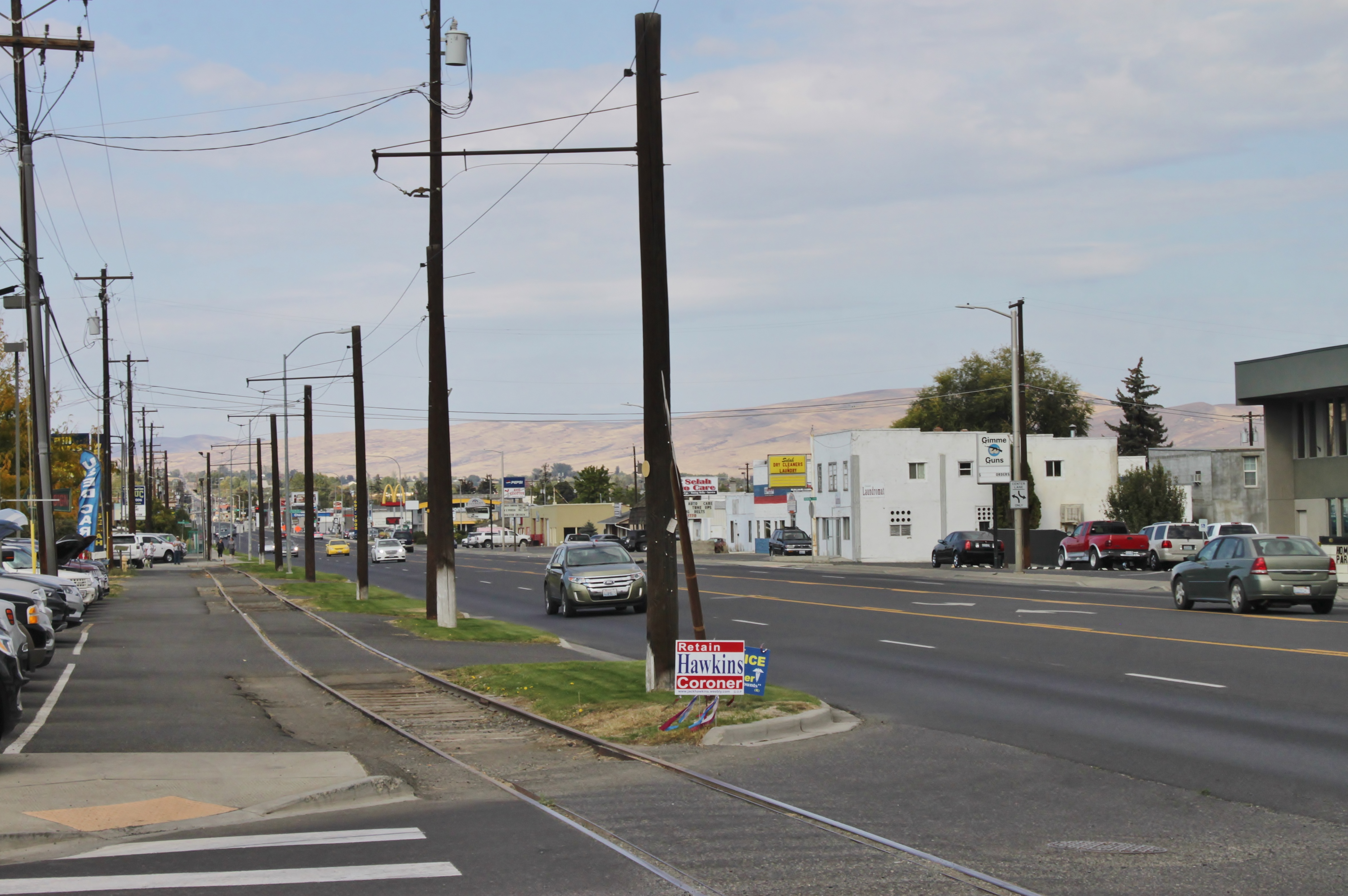 Looking northbound on Washington State Route 823 in Selah, including the tracks of the Yakima Valley Trolley.